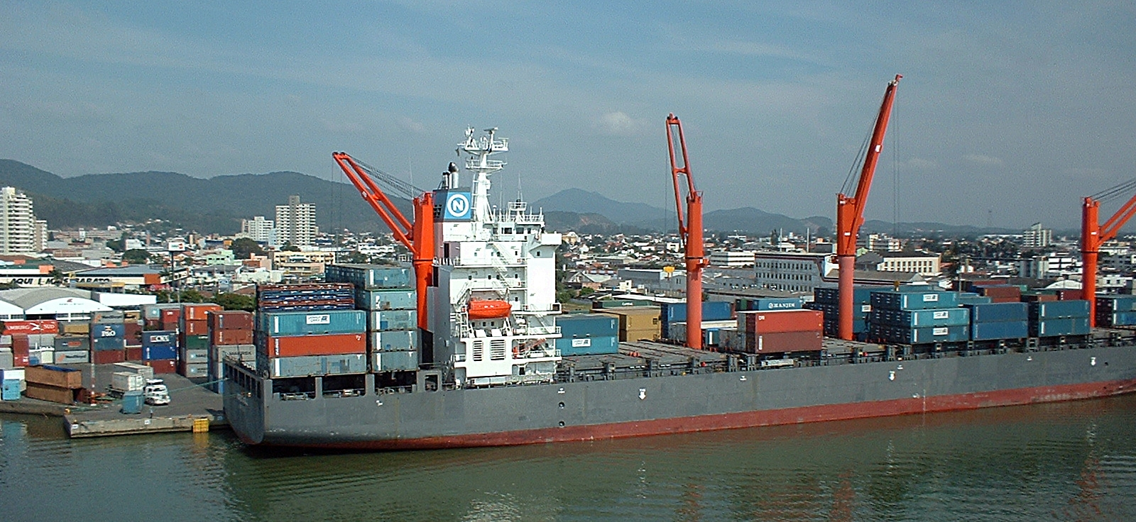 Container vessel 'Nordeagle' of Hamburg based shipping company 'Reederei Nord' during cargo operation in brazilian port Itajai